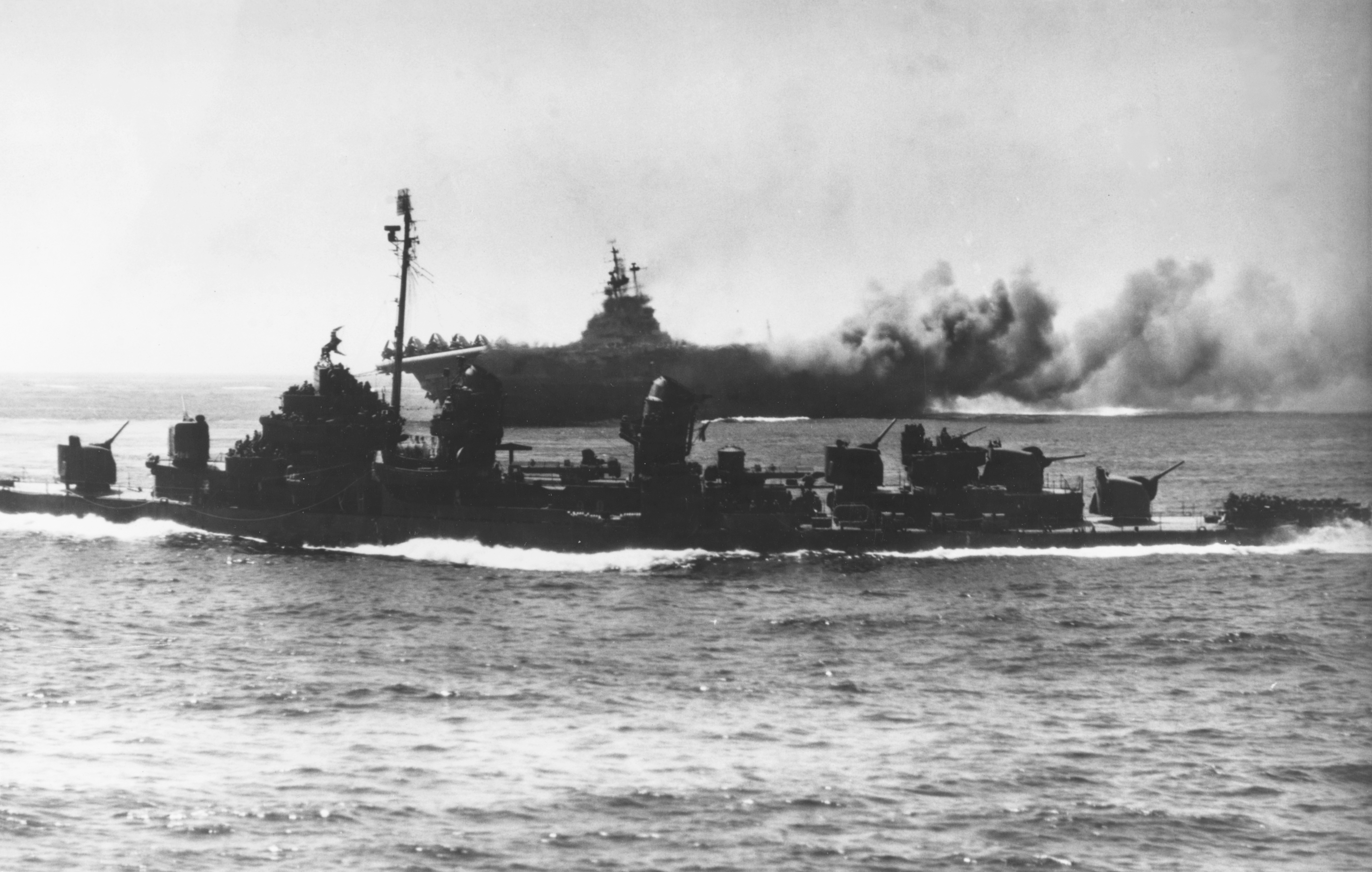 The U.S. Navy aircraft carrier USS Intrepid (CV-11) afire, after she was hit by a Kamikaze off Okinawa on 16 April 1945. A Fletcher-class destroyer steams by in the foreground.